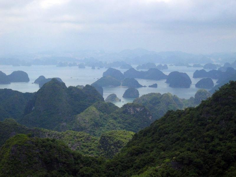 View of the Halong bay from the Cat Ba National Park